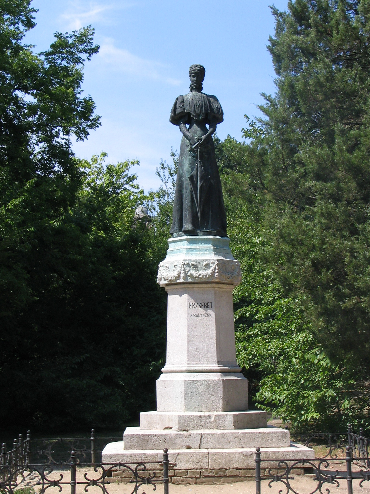 Monument of Elisabeth in Gödöllő (Hungary) This is a photo of a monument in Hungary, Identifier: 7060